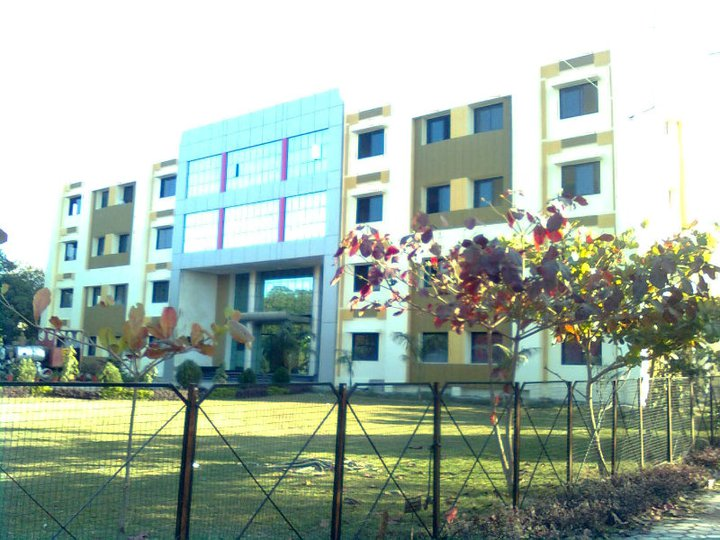 ATC building